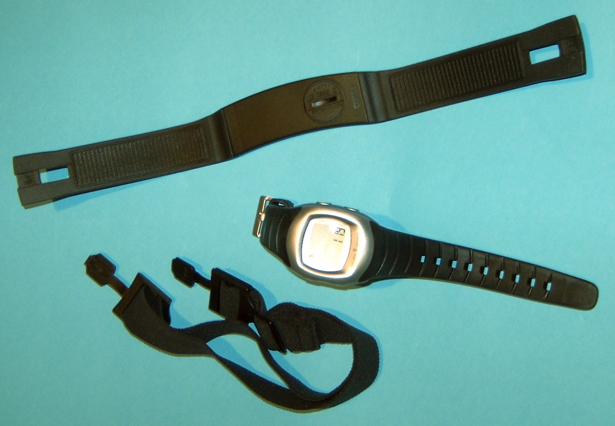 chest belt (top) with minicomputer in watch design (middle) and elastic strap (bottom)